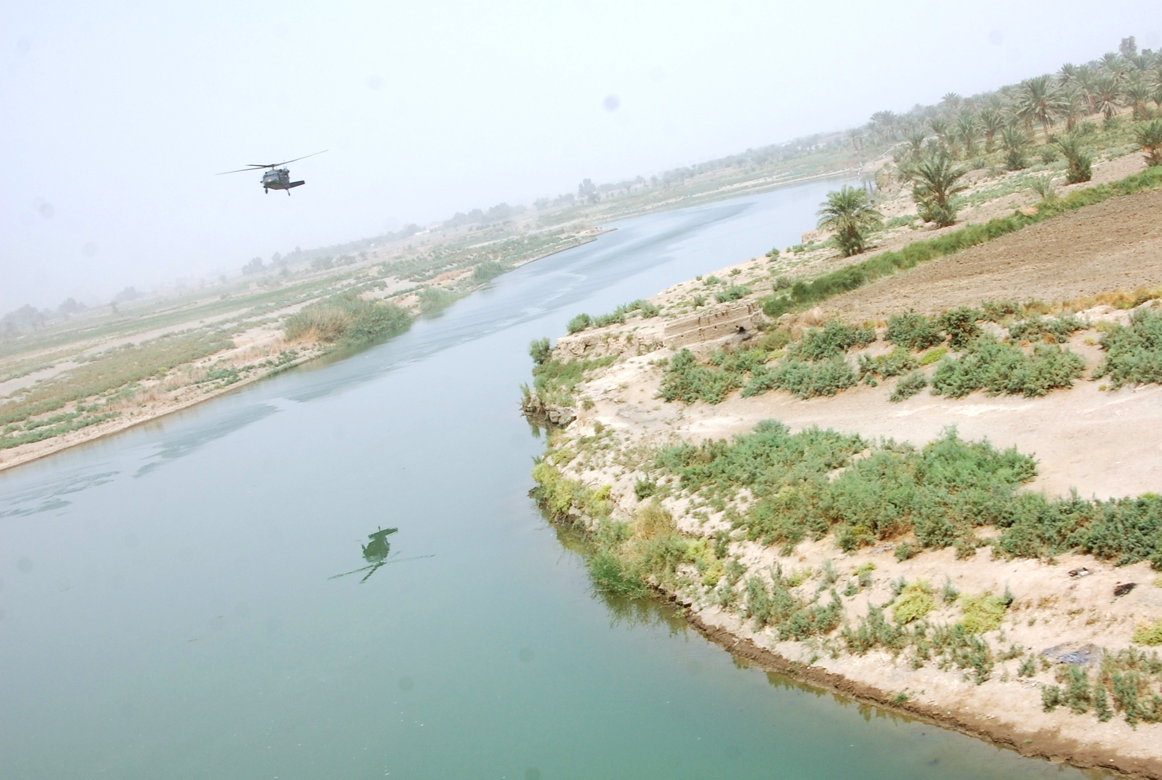 A UH-60 Black Hawk helicopter supporting 4th Brigade Combat Team, 1st Armored Division, flies over a farm in Muthanna province of Iraq.